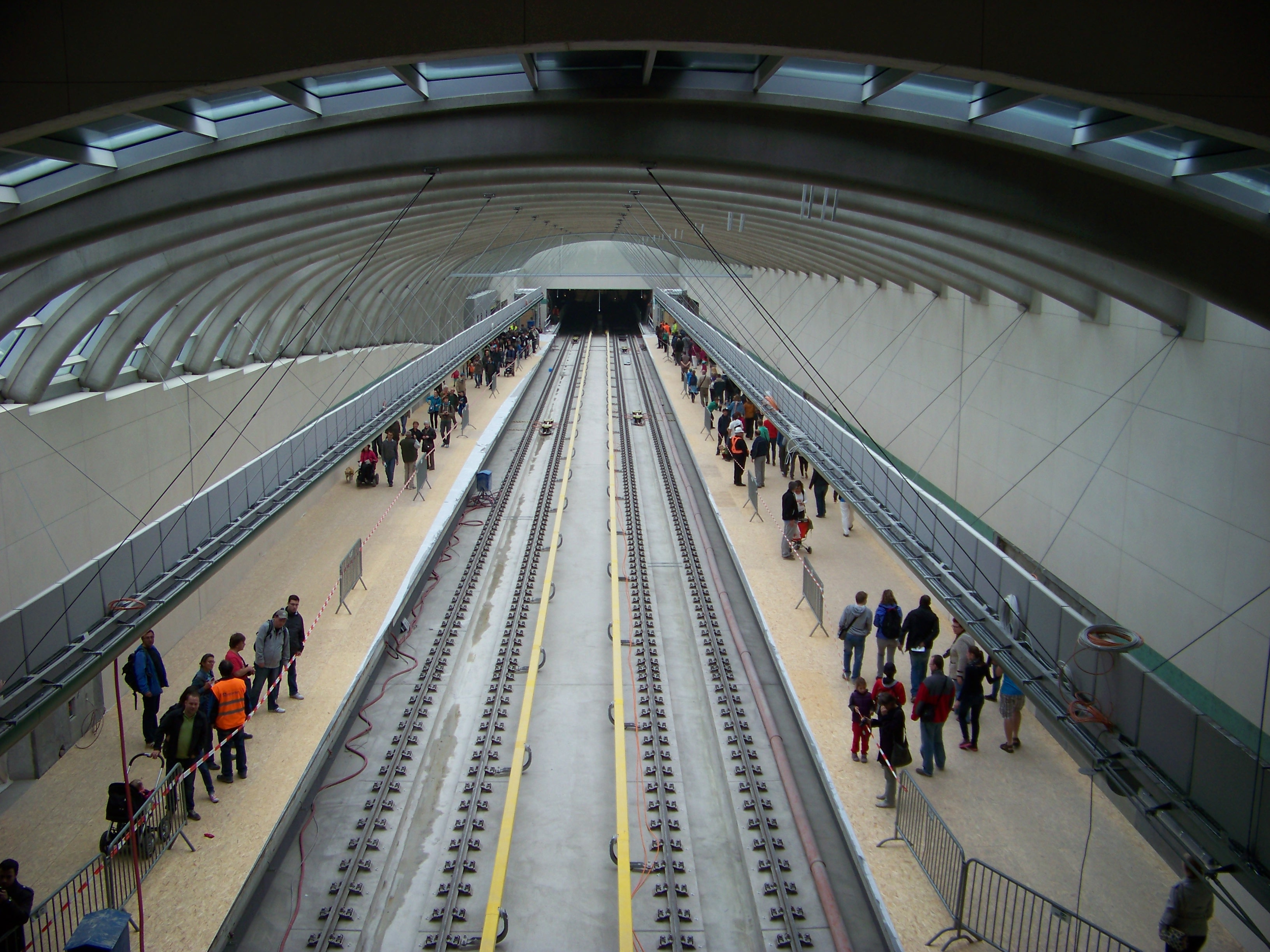 Prague-Motol, Czech Republic. Kukulova street, an open doors day of Nemocnice Motol metro station construction site.